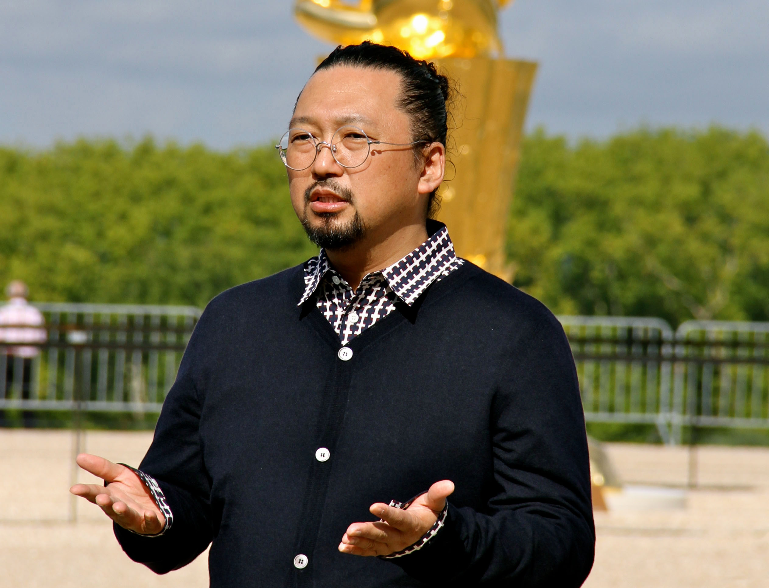 Japanese Artist Takashi Murakami at the Palace of Versailles giving an interview to a film crew about his new exhibit 10th of September 2010